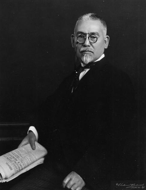 Shimpei Gotō(後藤 新平,24 July 1857-13 April 1929)